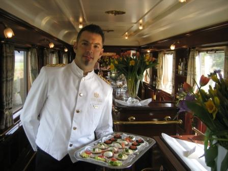 A 1920s train car. Steward serving canapés on a tray.